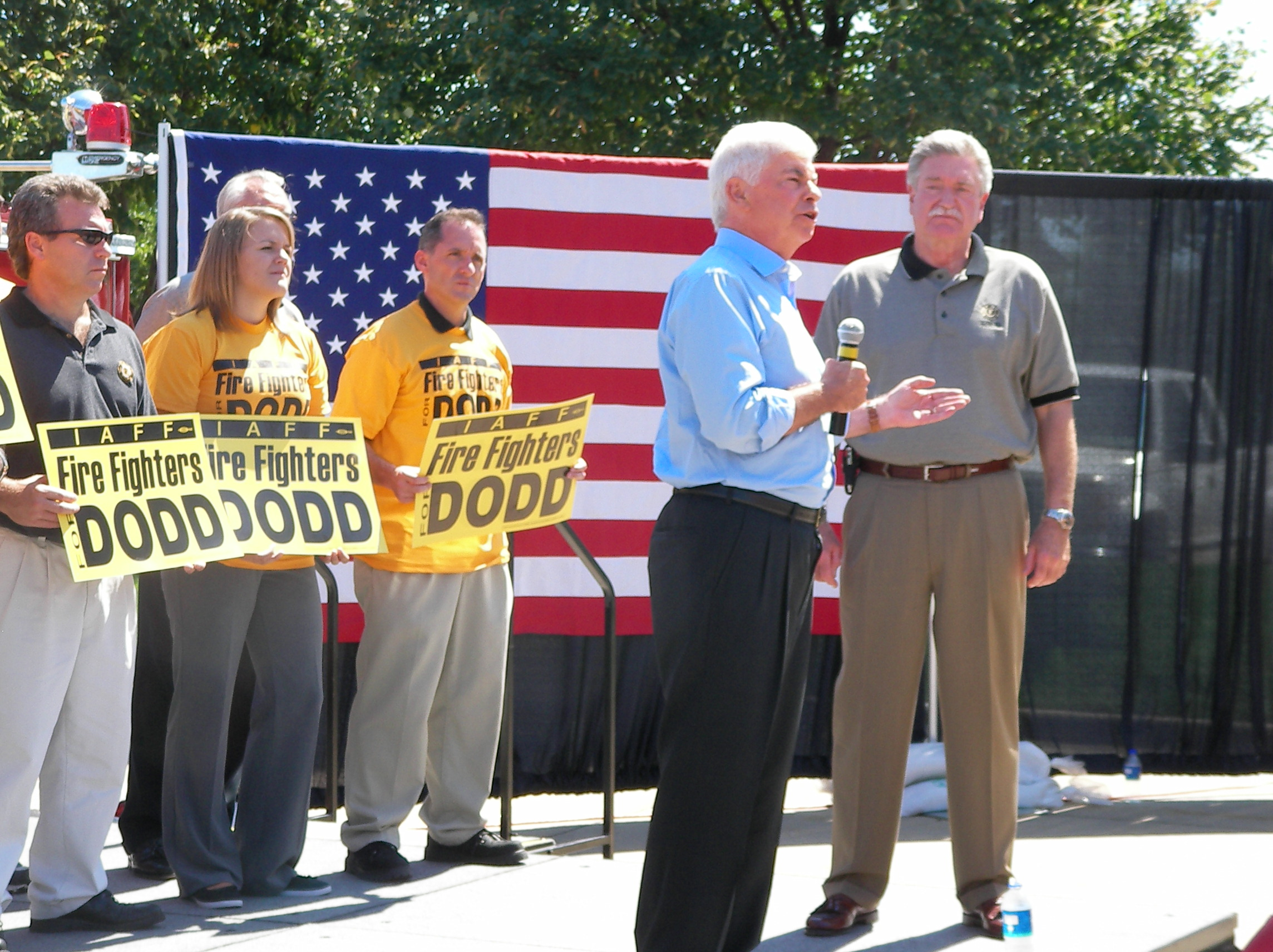 Sen. Chris Dodd, D-Conn., receives the endorsement of the International Association of Fire Fighters at a campaign stop Aug. 30 in West Des Moines.